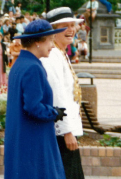 The Queen and Christchurch mayor Vicki Buck during a royal walkabout, Victoria Square, Christchurch, New Zealand, February 1990